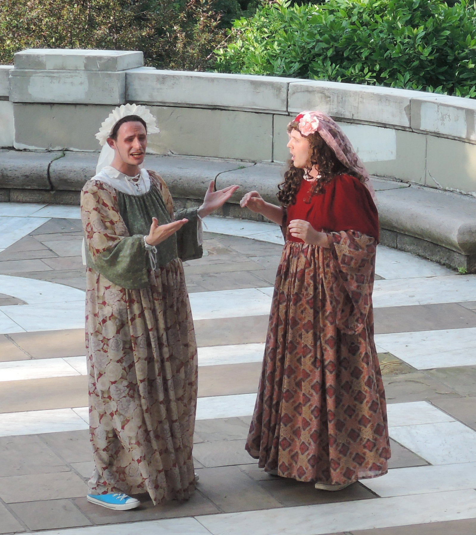 Juliet and Nurse in The Complete Works of William Shakespeare (Abridged).